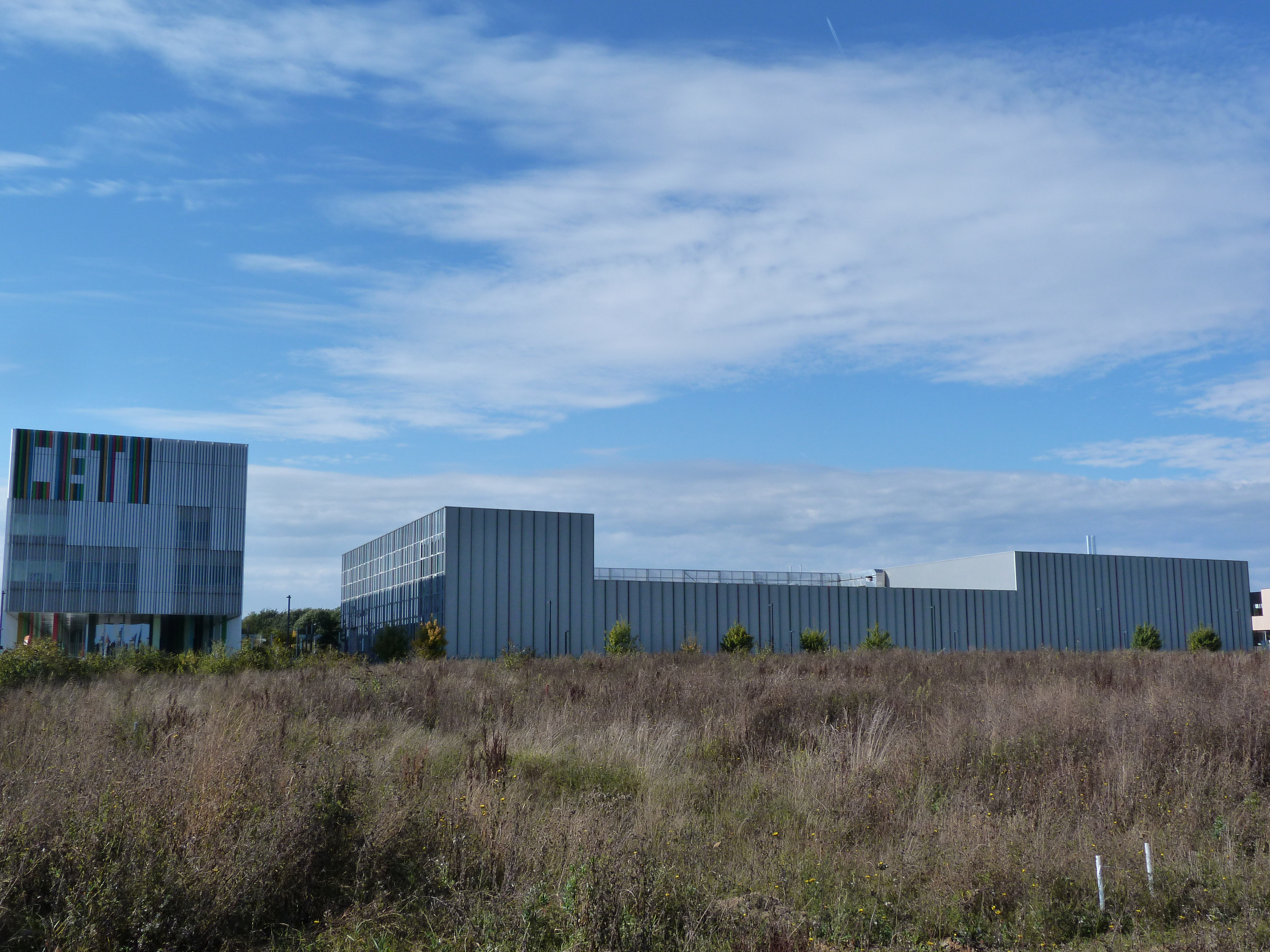 The CETI (European center for innovative textiles) in the zone de l'union in Tourcoing seen from the rue de l'union